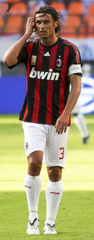 Paolo Maldini